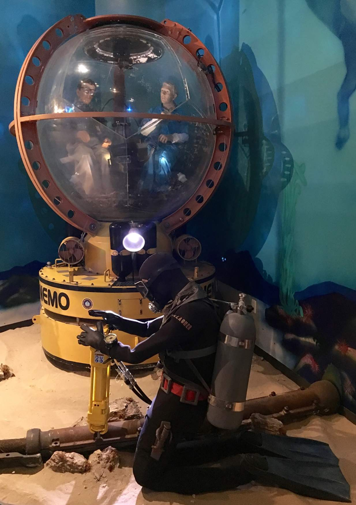 DSV-5 NEMO on display at the Seabee Museum in Oxnard, California